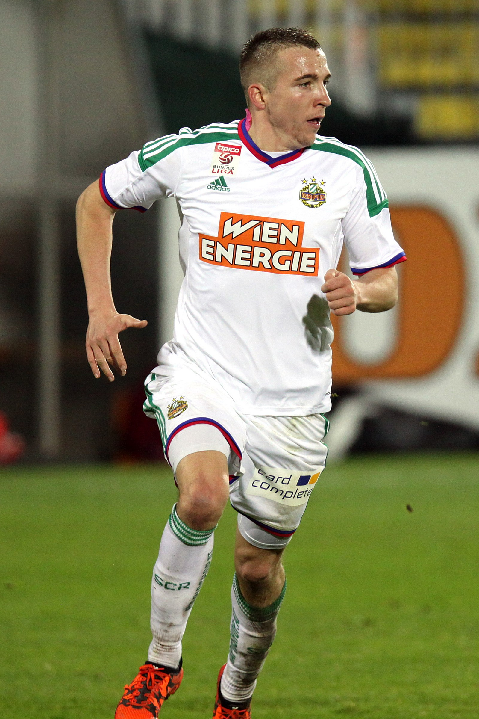 Match of the Austrian Football Bundesliga – SV Mattersburg (green shirts) vs. SK Rapid Wien (white shirts) 1-6 (0-5) at 2015-11-21 in Pappelstadion, Mattersburg – The photo shows Christopher Dibon.